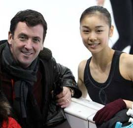 Kim Yu-Na and coach Brian Orser at the 2007-2008 Grand Prix Final practice time.